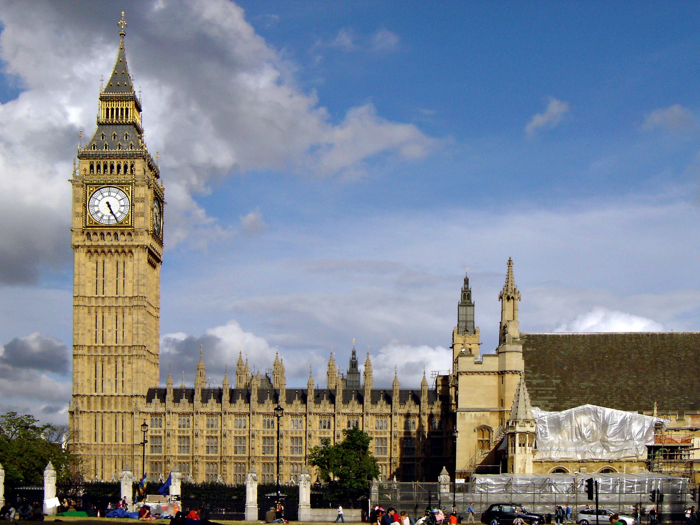 Palace of Westminster or the Houses of Parliament, London